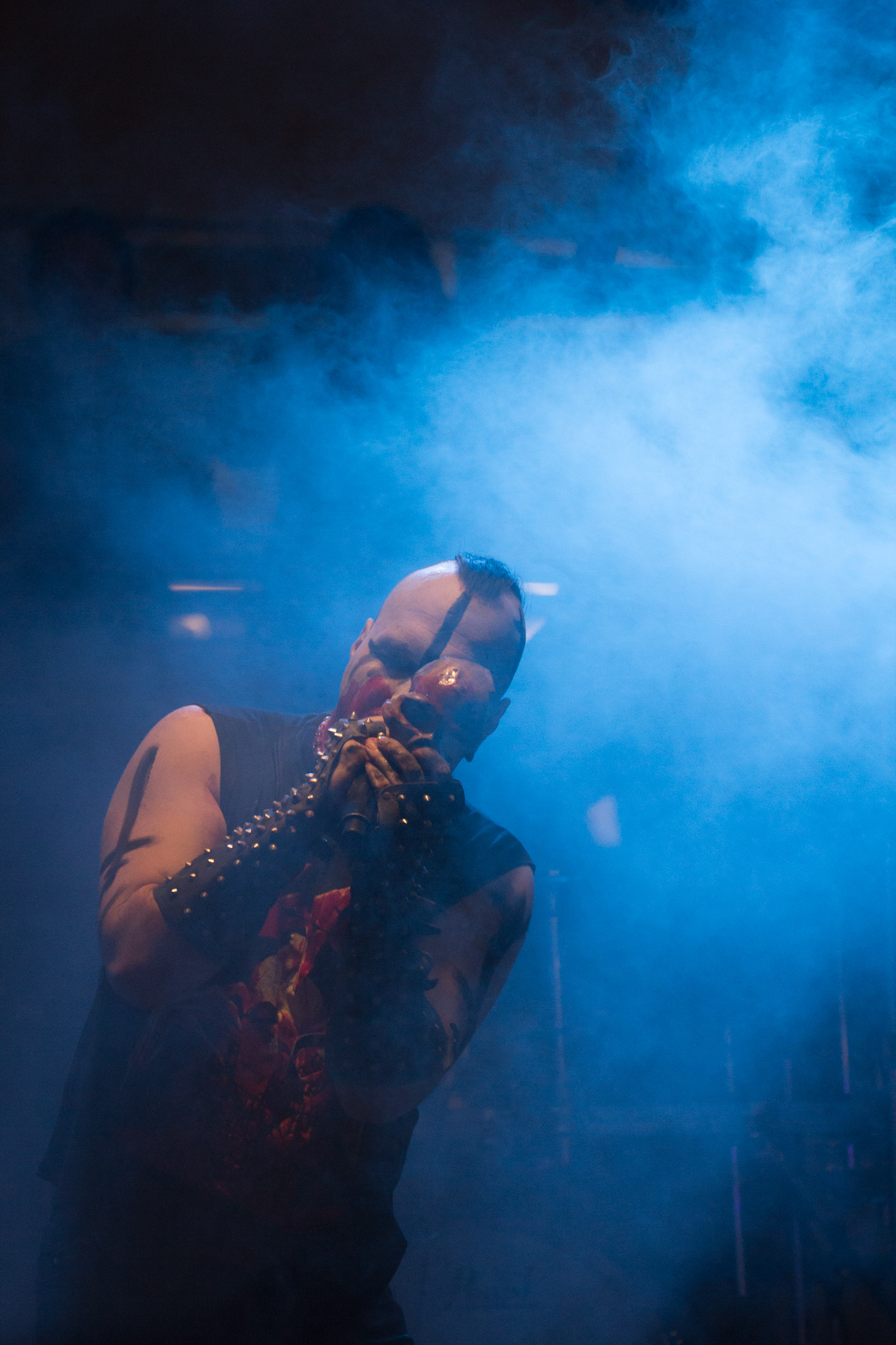 Mayhem at the "Barge to Hell" Heavy Metal Cruise